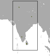 Horsfield's Shrew (Crocidura horsfieldii range